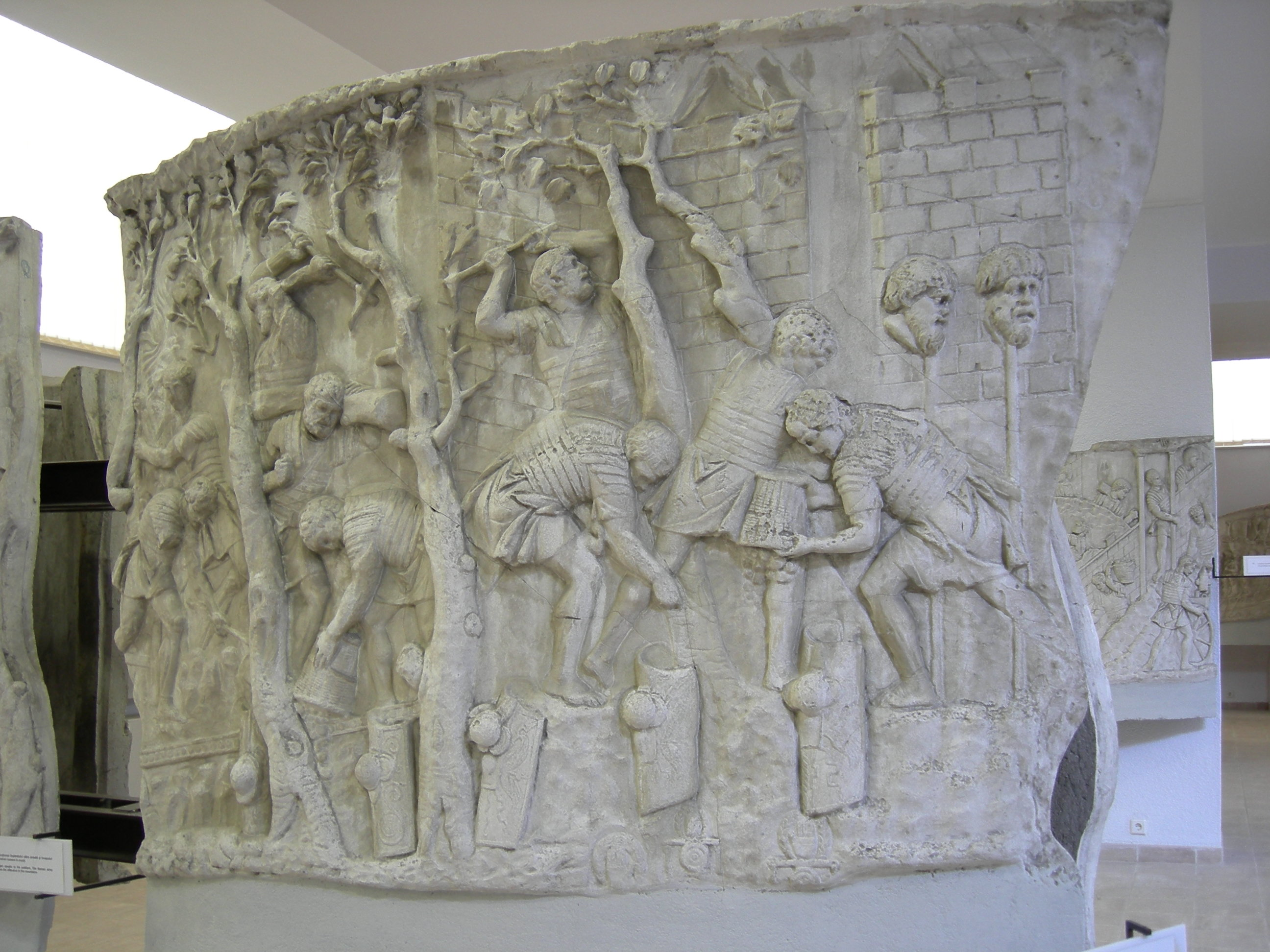 Roman soldiers building a bridge and a mountain road. Note the heads on pikes at the right. From Trajan's Column; this is from the plaster-cast reproduction at the Museum of Romanian History in Bucharest, Romania